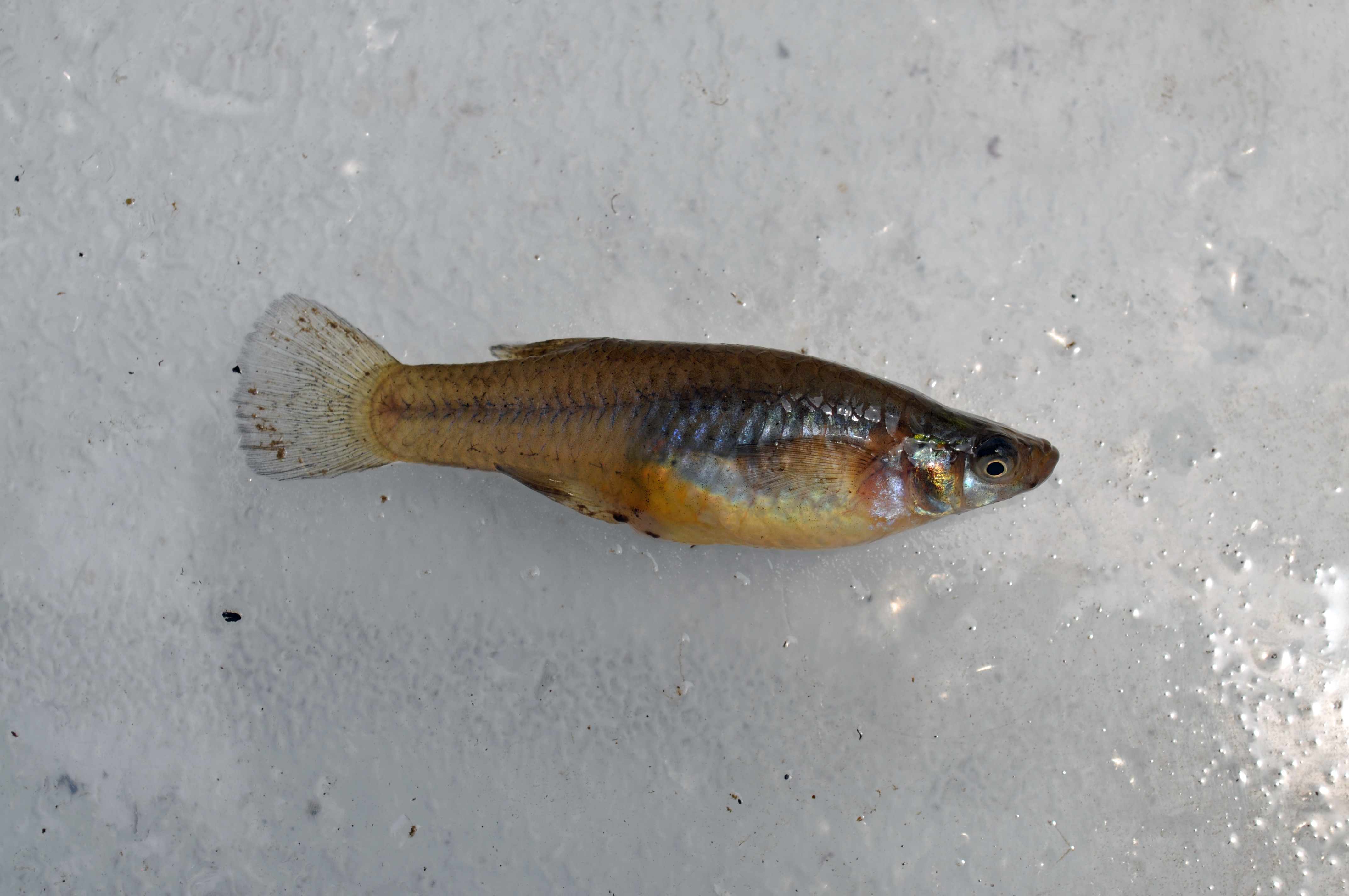 A large adult female Gambusia affinis (western mosquitofish) in Tyson Research Center, Missouri.